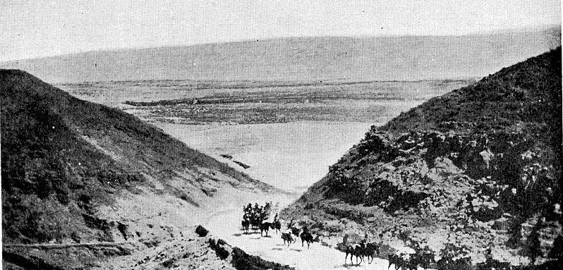 Photograph of a mounted unit of British Empire troops riding out of the Jordan Valley in September 1918 Other information Government copyright access unrestricted